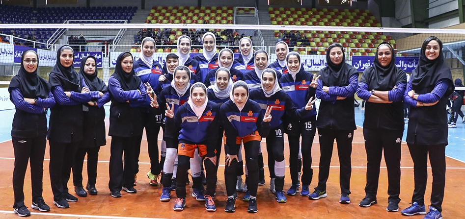 Iranian women volleyball league 2019. First week of the second round